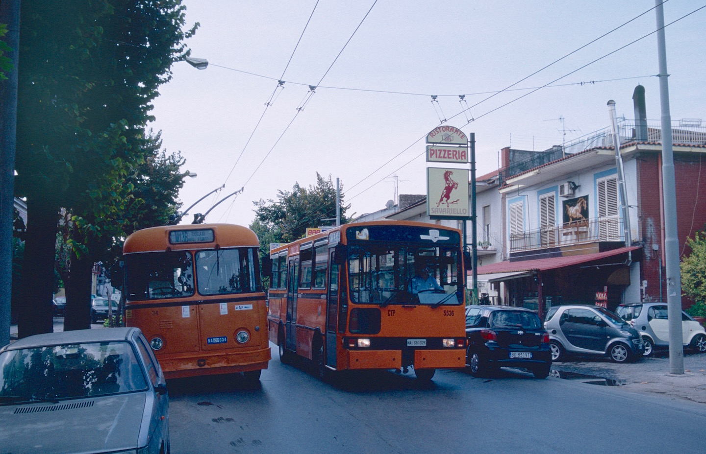 CTP (Compagnia Trasporti Pubblici di Napoli) motorbus 5536 passing CTP trolleybus 34, northbound on Via Roma in Teverola. Trolleybus 34 was a 1962 Alfa Romeo 1000AF trolleybus, and bus 5536 was a 1989 Inbus 150/S (with a length of 8.6 m). CTP's trolleybus service was extended from Aversa to Teverola in December 2001.